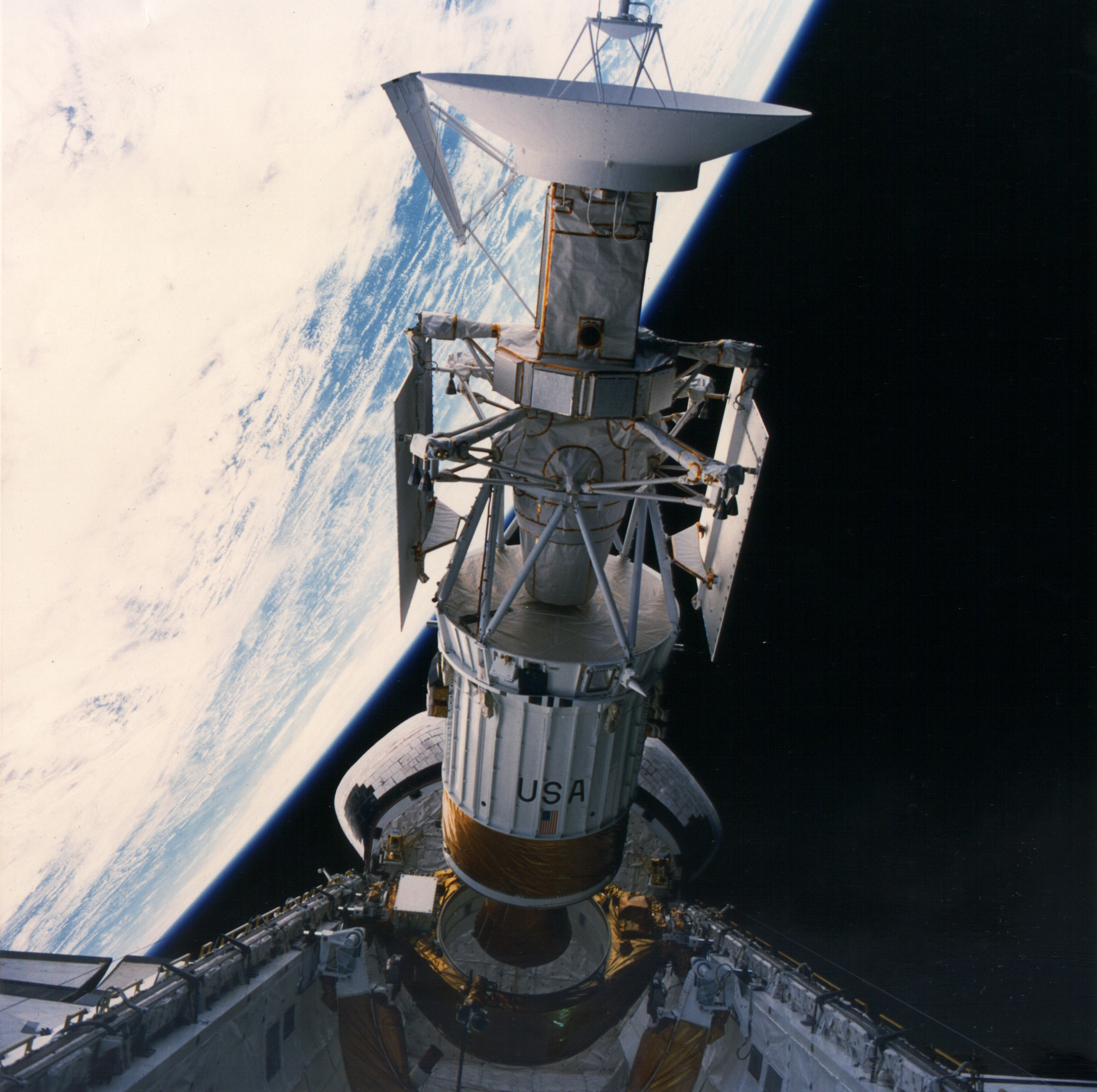 Magellan being deployed with IUS stage during the STS 30 (Atlantis) flight.